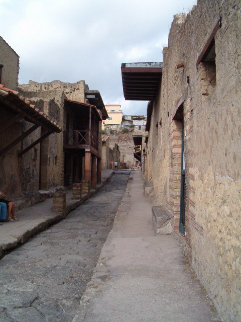 Street of Cardo IV of herculaneum; on right side Insula III, with house so-called Casa a Graticcio